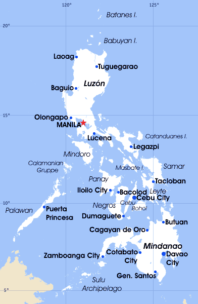 A general map of the Philippines, showing the location of major cities and islands, based on Image:Ph general map.png and Image:Ph general map blank.png